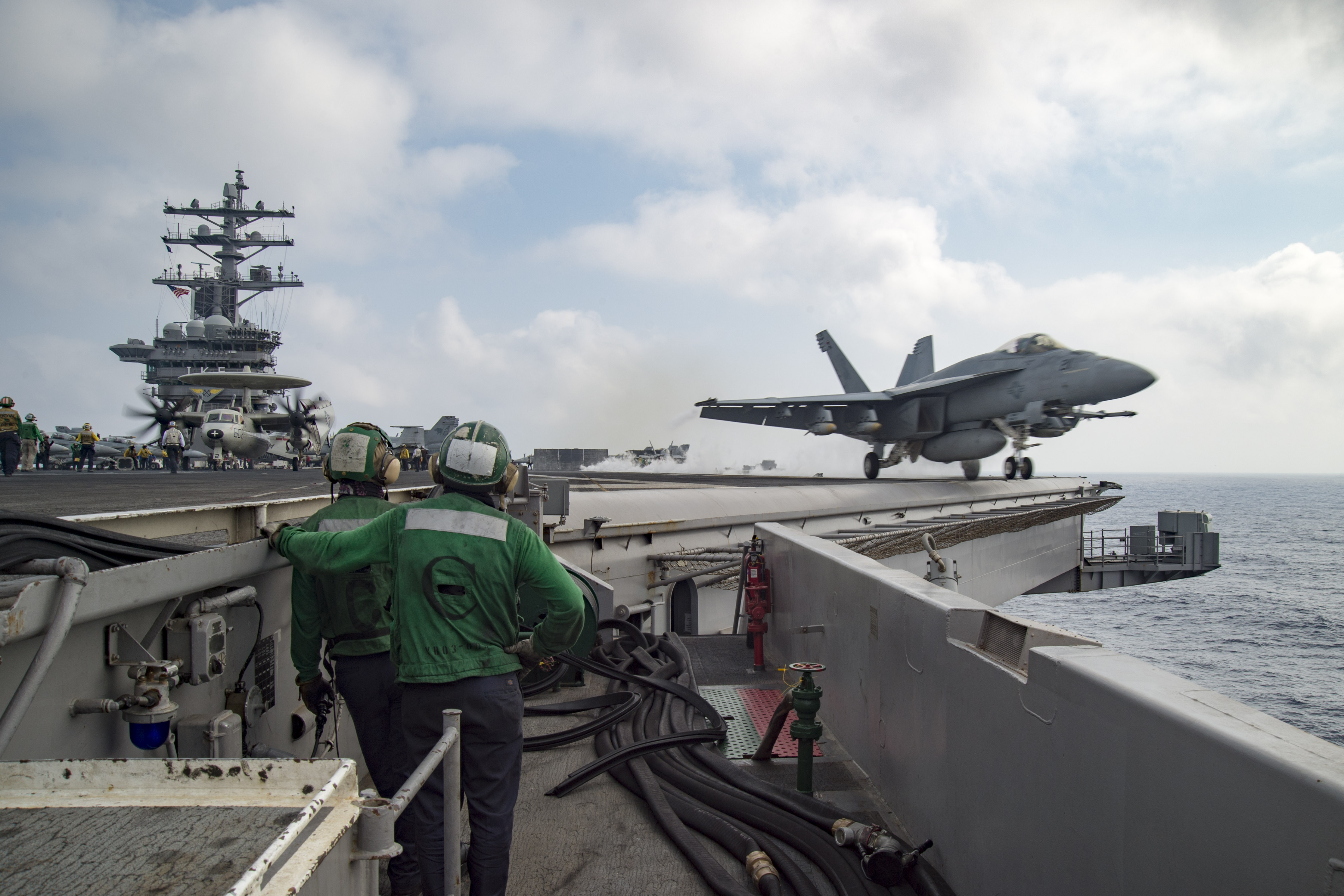 MEDITERRANEAN SEA (June 28, 2016) An F/A-18E Super Hornet assigned to the Sidewinders of Strike Fighter Squadron (VFA) 86 launches from the flight deck of the aircraft carrier USS Dwight D. Eisenhower (CVN 69). Dwight D. Eisenhower is deployed in support of Operation Inherent Resolve, maritime security operations and theater security operation efforts in the U.S. 6th Fleet area of operations. (U.S. Navy photo by Mass Communication Specialist 3rd Class Anderson W. Branch/Released) 160628-N-KK394-143 Join the conversation: navylive.dodlive.mil